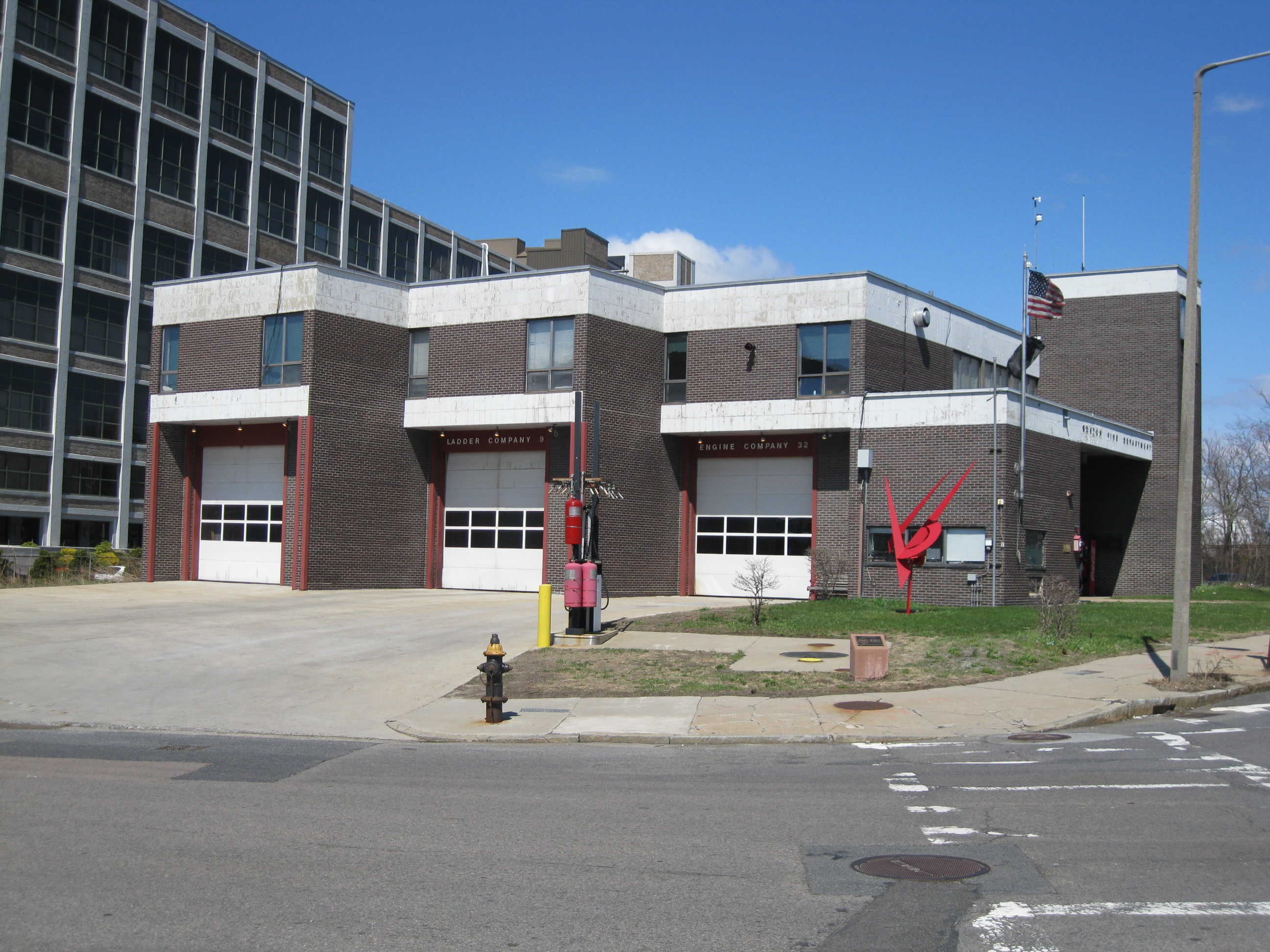 Boston Fire Department Engine 32 and Ladder 9 Firehouse, located at 525 Main Street, Charlestown MA 02129.